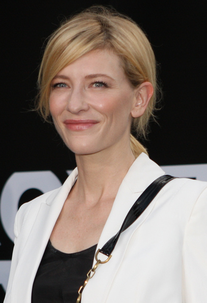 Cate Blanchett at Tropfest 2012